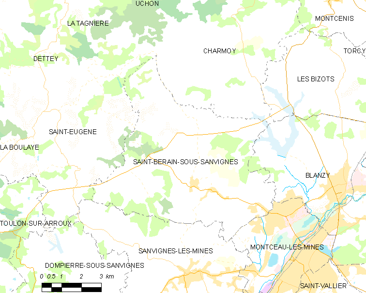 Map of French municipality